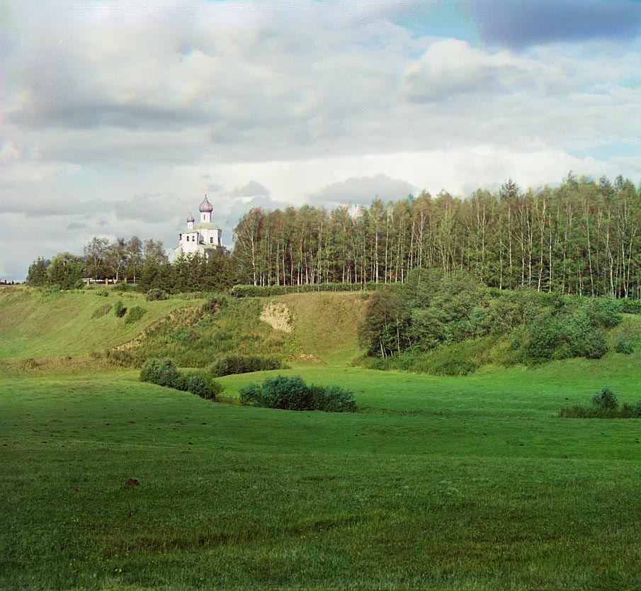 General view of Borodino church. Borodino, 1911, S. M. Prokudin-Gorskii.